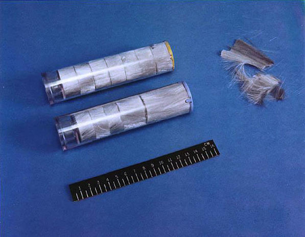 Two types of chaff and their canisters. Photo by US Navy Naval Research Laboratory. From page: Watermark badly removed by Ali'i on 21:45, 12 March 2008 (UTC)